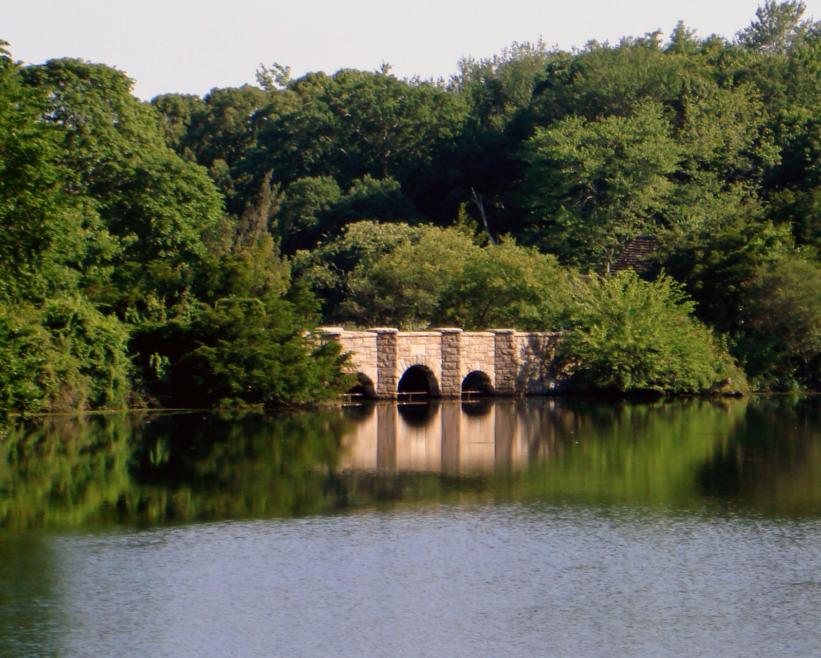 Old Field Road Bridge over Setauket Mill Pond.